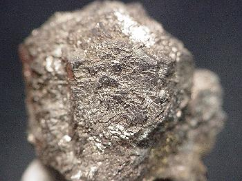 Luzonite Locality: Chingkuashih Mine, Taiwan Size: thumbnail, 2.9 x 2.2 x 1.8 cm Luzonite Thumbnail, 2 x 1.75 x 1.5 cm A complete-all-around knob of crystals of this rare species, from a now defunct locality. Unusually aesthetic example!